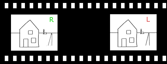 Film strip with stereo photo.